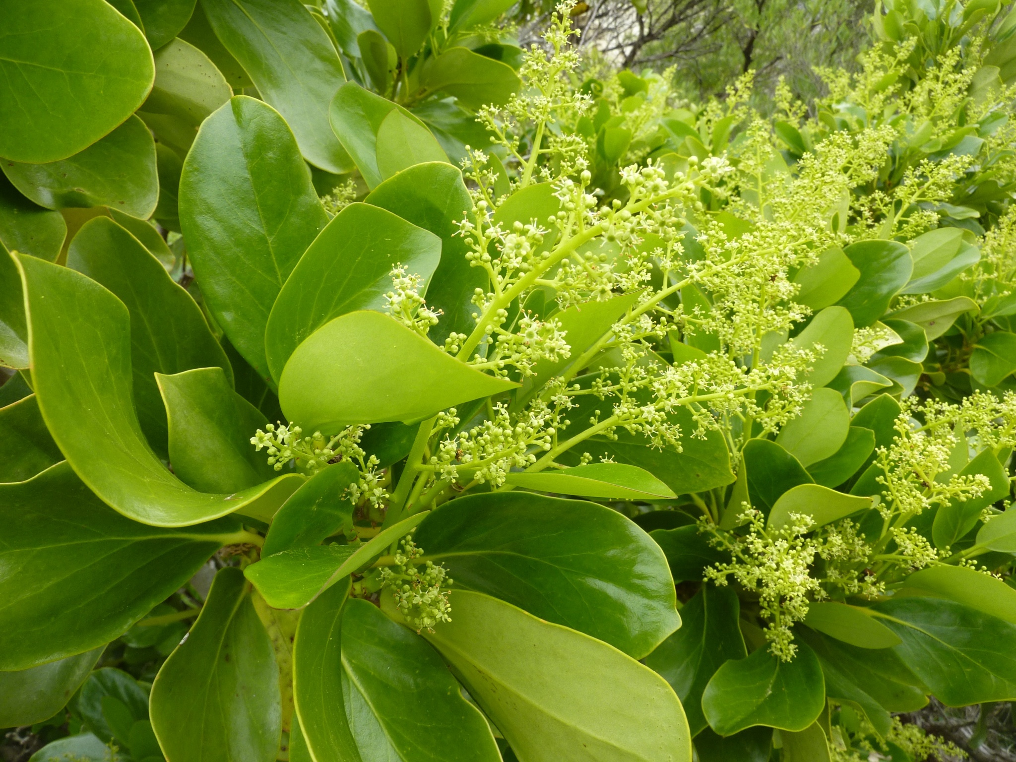 Puka (Griselinia lucida), photographed at Napenape, Canterbury, New Zealand